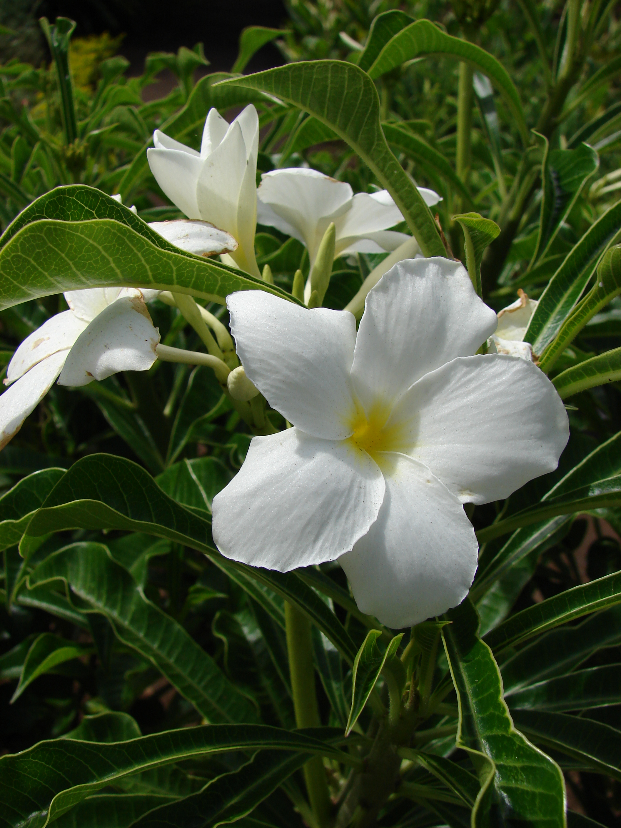 Plumeria pudica (flowers). Location: Maui, Enchanting Gardens of Kula